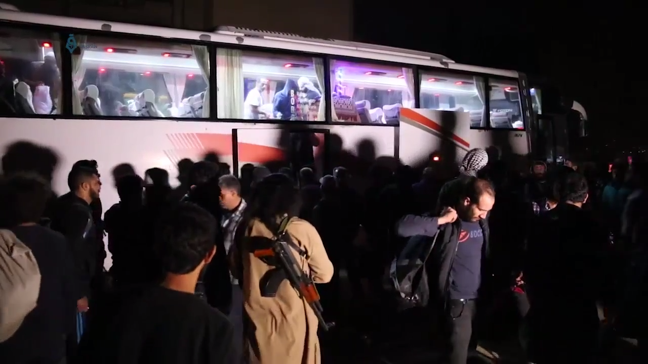 Syrian rebel fighters from the Damascus neighbourhoods of Qaboun, Barzeh, and Tishrin arrive in Qalaat al-Madiq by bus.